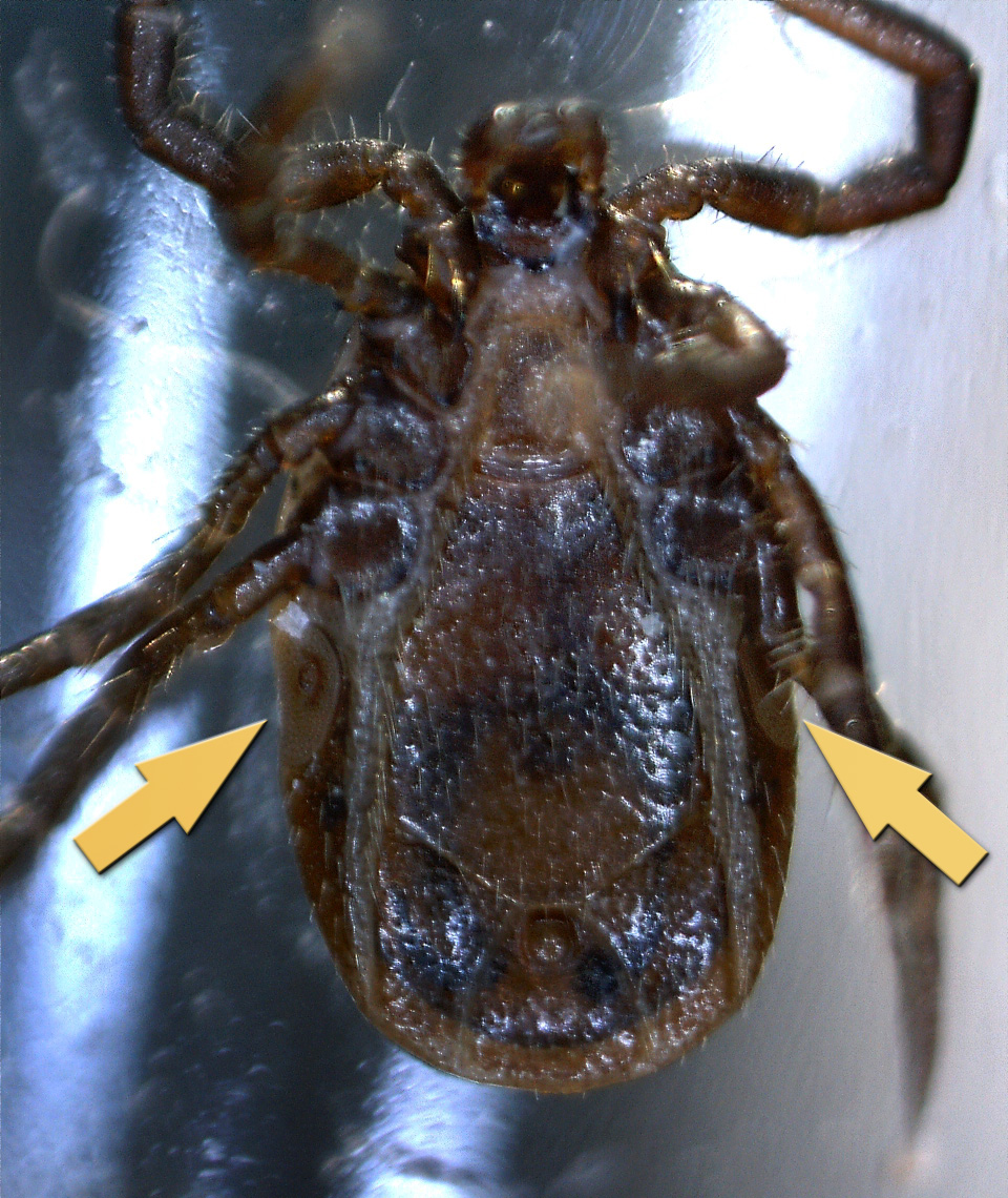 Spiracles of a tick (found in the forest of Flines-lez-Mortagne in the northern France, July 10, 2015)